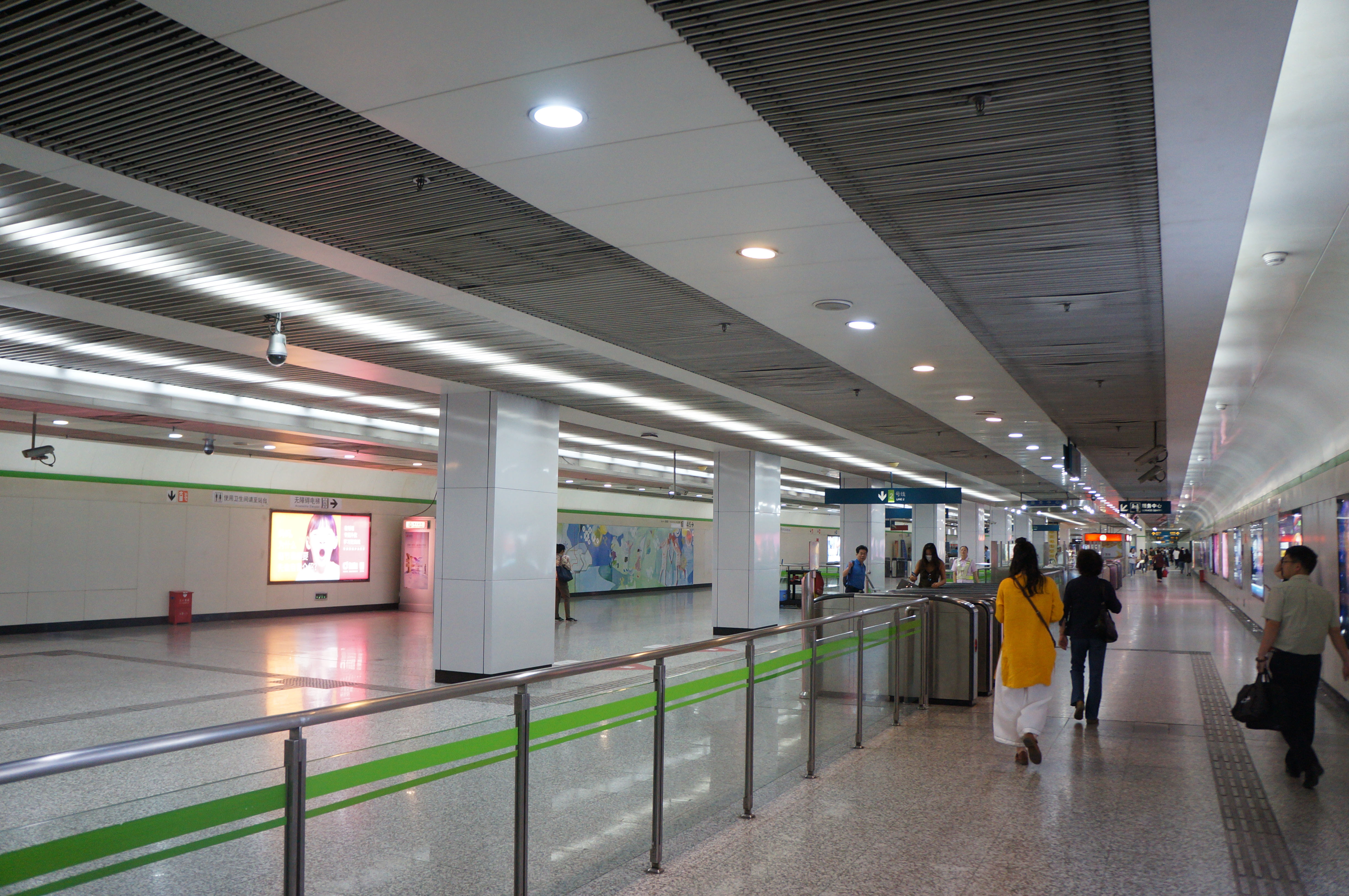 201805 Concourse of Songhong Road Station